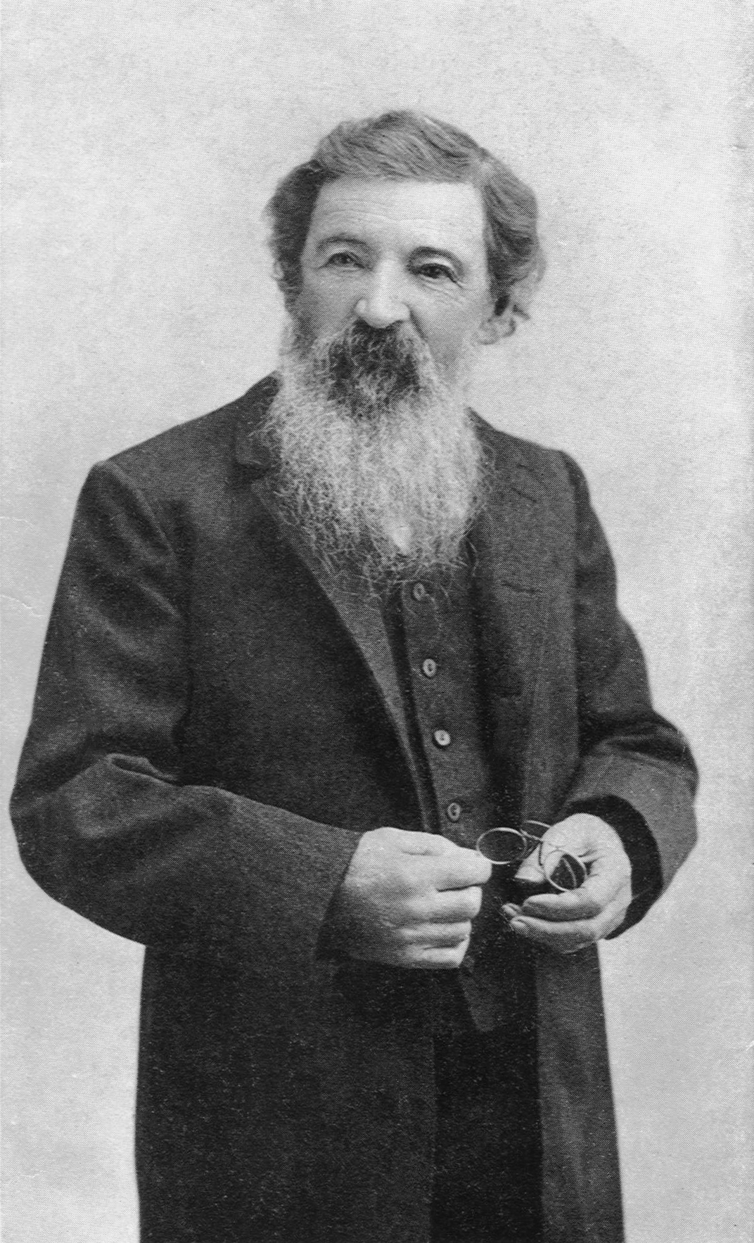 Formal portrait of Thomas Condon (1822–1907), a minister and geologist who gained recognition for his work in paleontology. He is especially known for his work with fossils in what became John Day Fossil Beds National Monument in the U.S. state of Oregon.